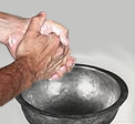 Handwashing for the nocturnal ritual of purification